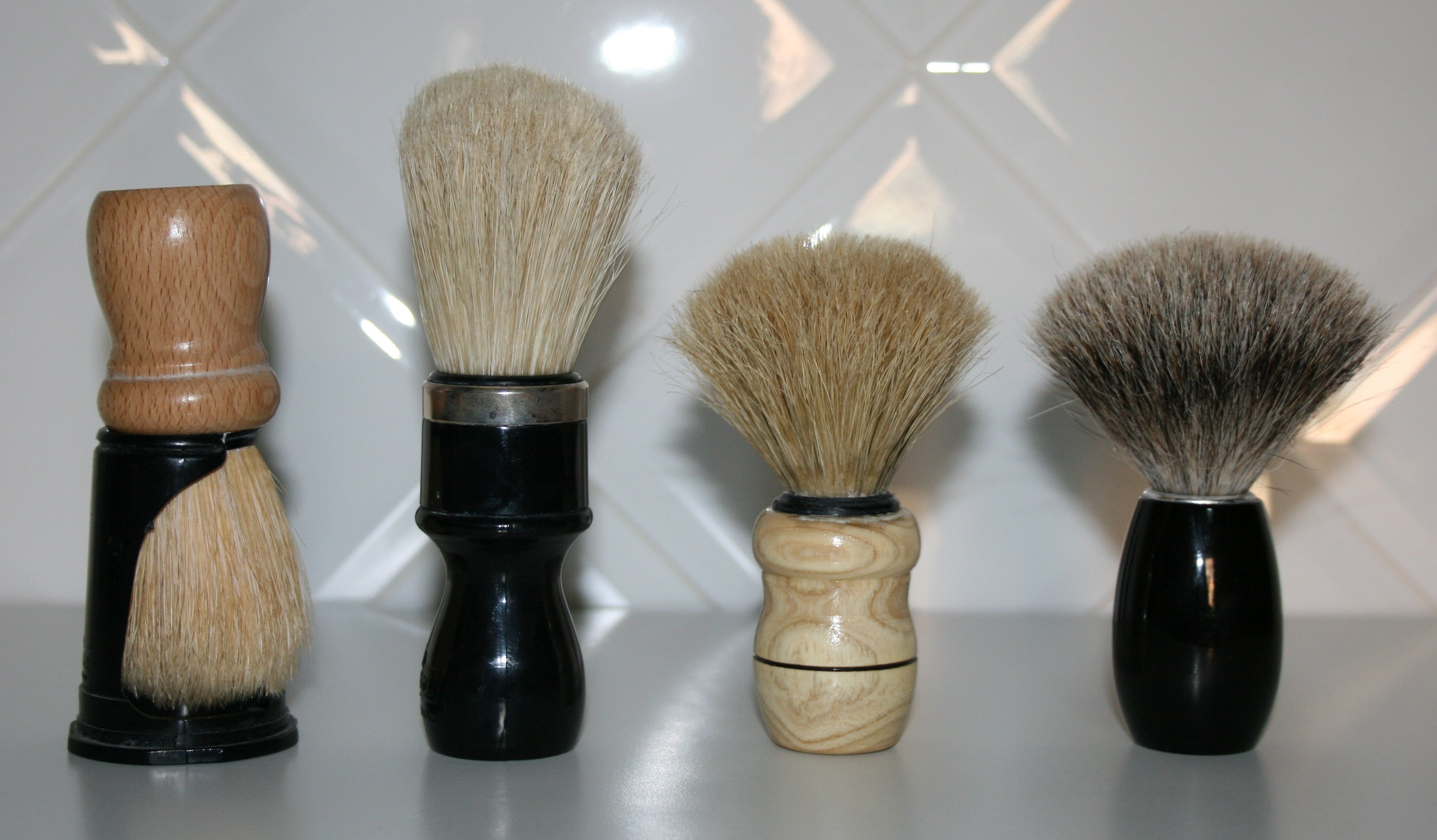 Different shaving brushes, from left: bristle on drying support, bristle, horse, pure badger.